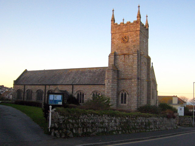 The parish church of St Anta and All Saints Carbis Bay With December afternoon sun just catching the top of the tower.